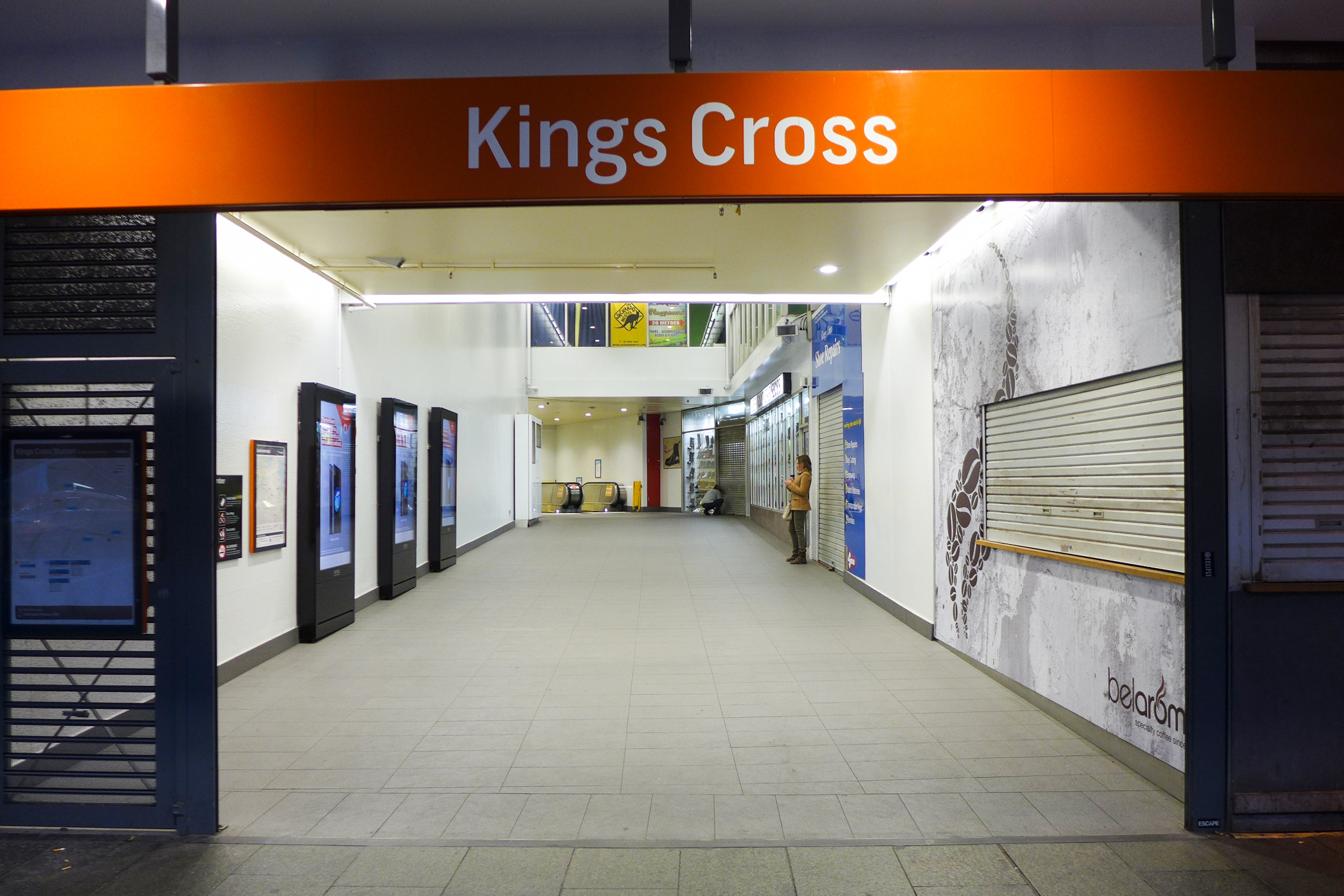 Kings Cross railway station, Sydney